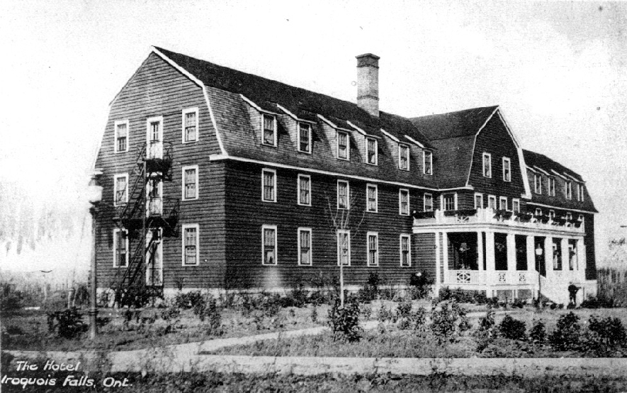 Iroquois Hotel - Iroquois Falls, Ontario, Canada.